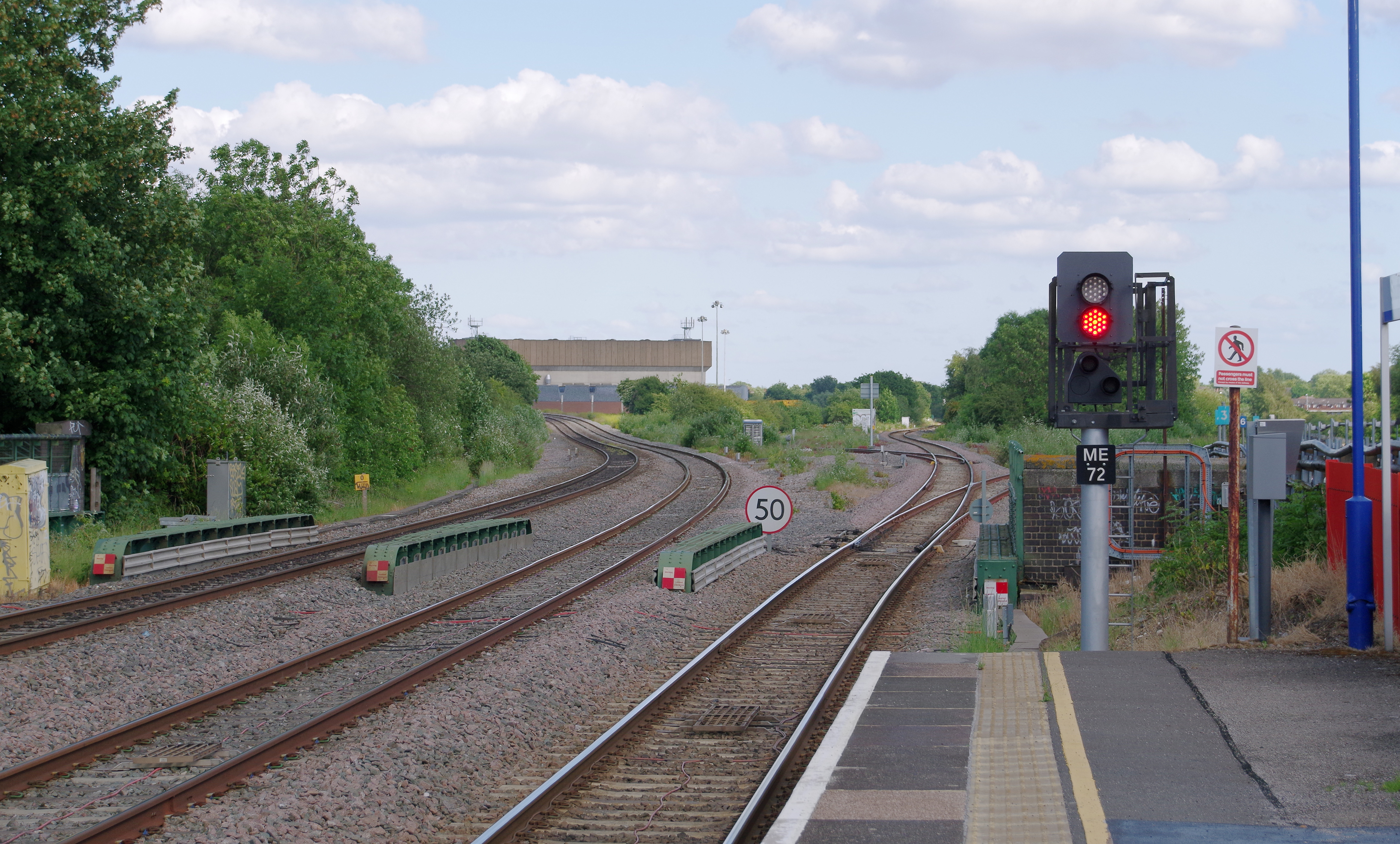 Chiltern Main Line tracks through South Ruislip station in London.